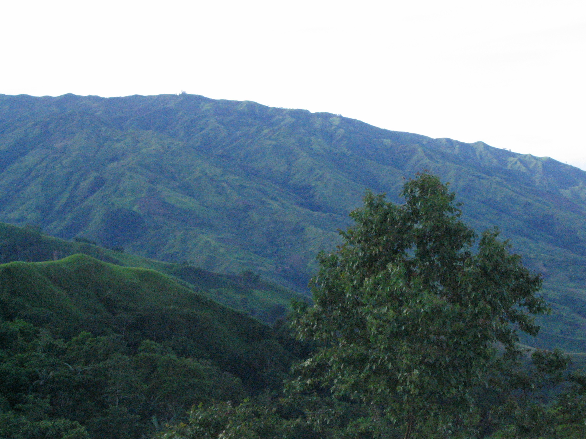 Mountain Range on the border of Davao and Bukidnon